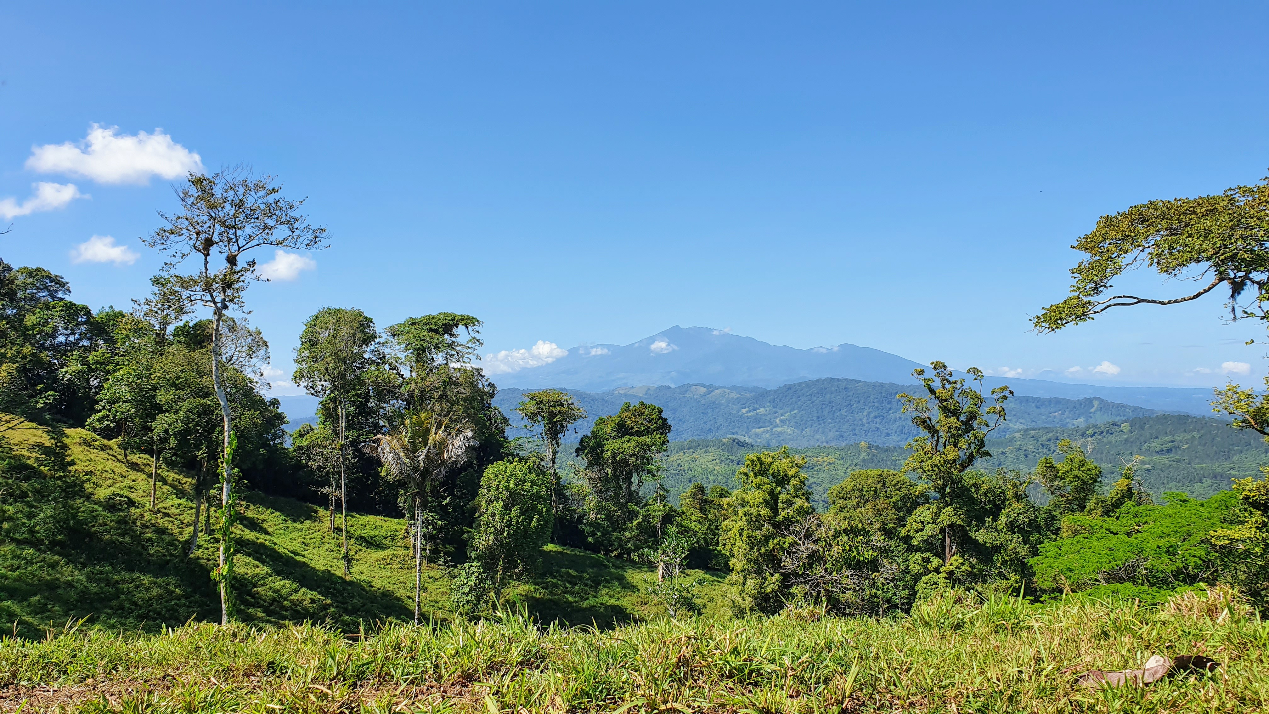 A view from the Camino de Costa Rica with the volcano Turrialba in the background